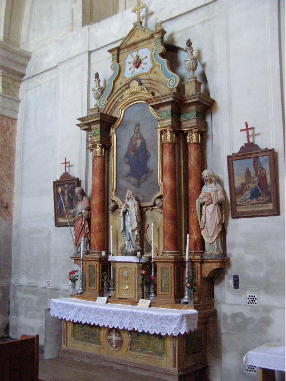 The right side-altar in the Istvánfalvian Church